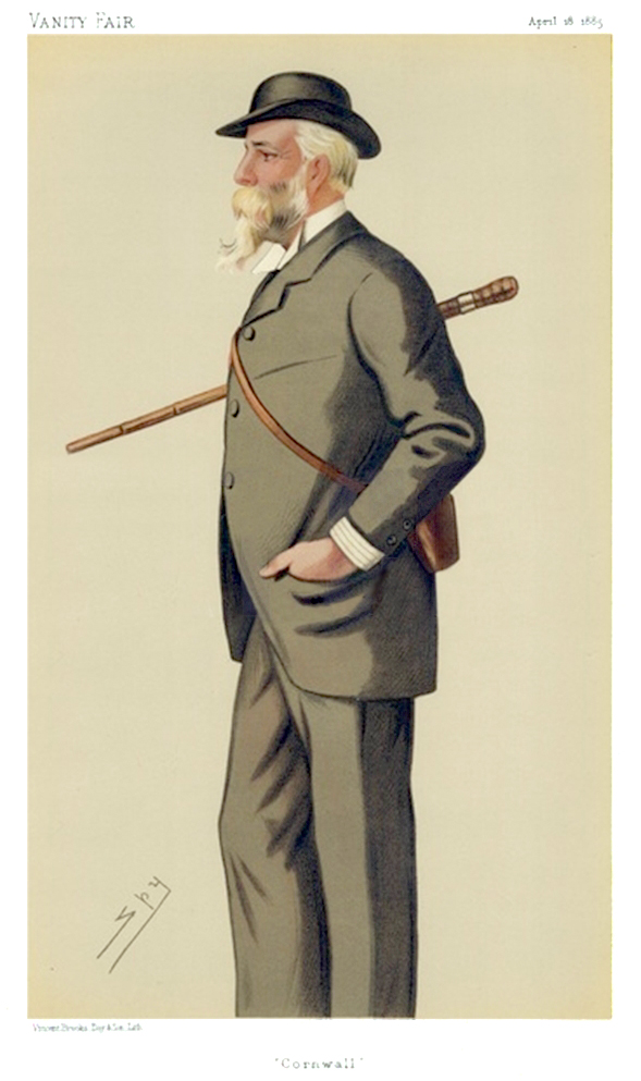 Edward Brydges Willyams by Leslie Ward